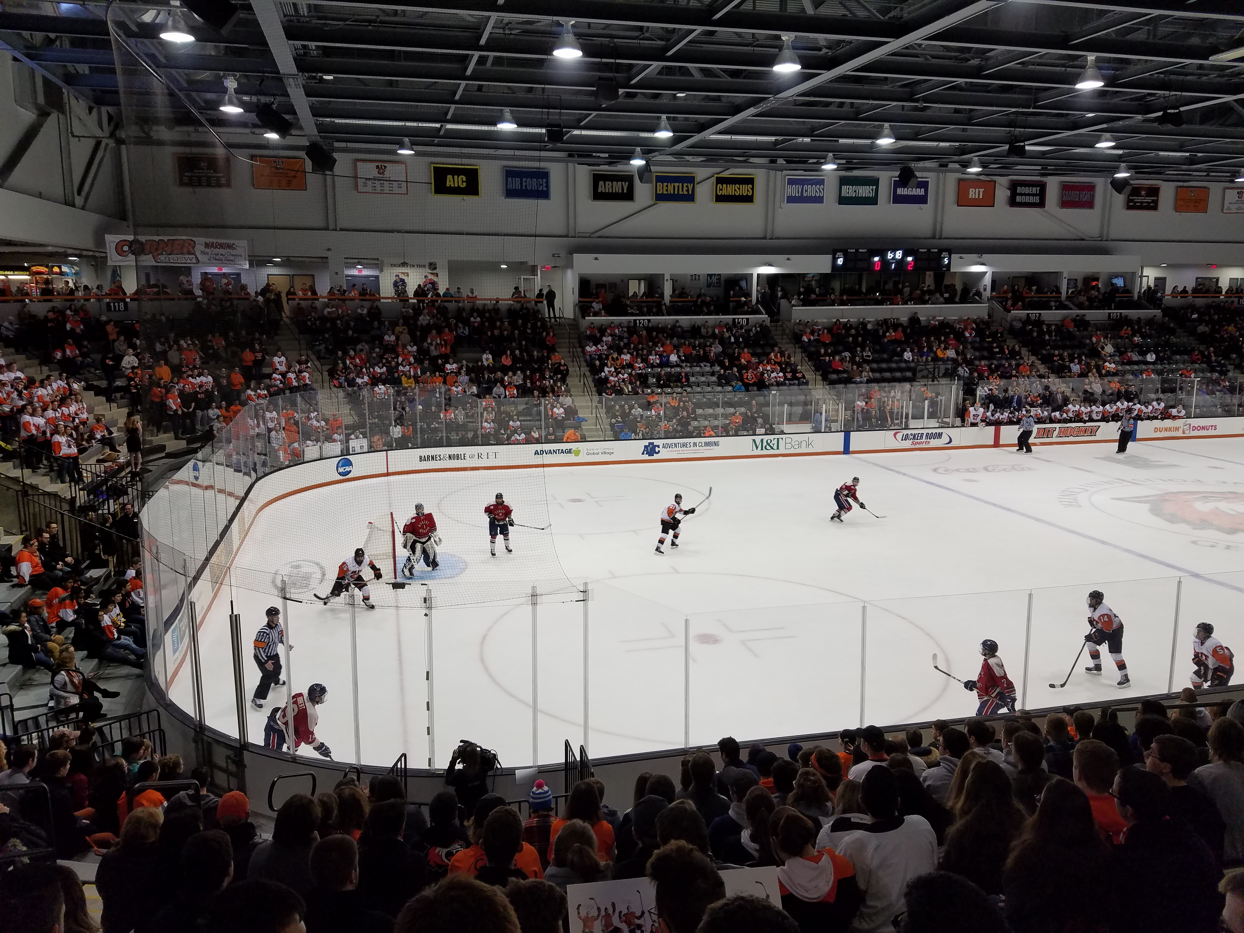 RIT men's hockey in a game against Robert Morris University. Taken on February 23, 2019.